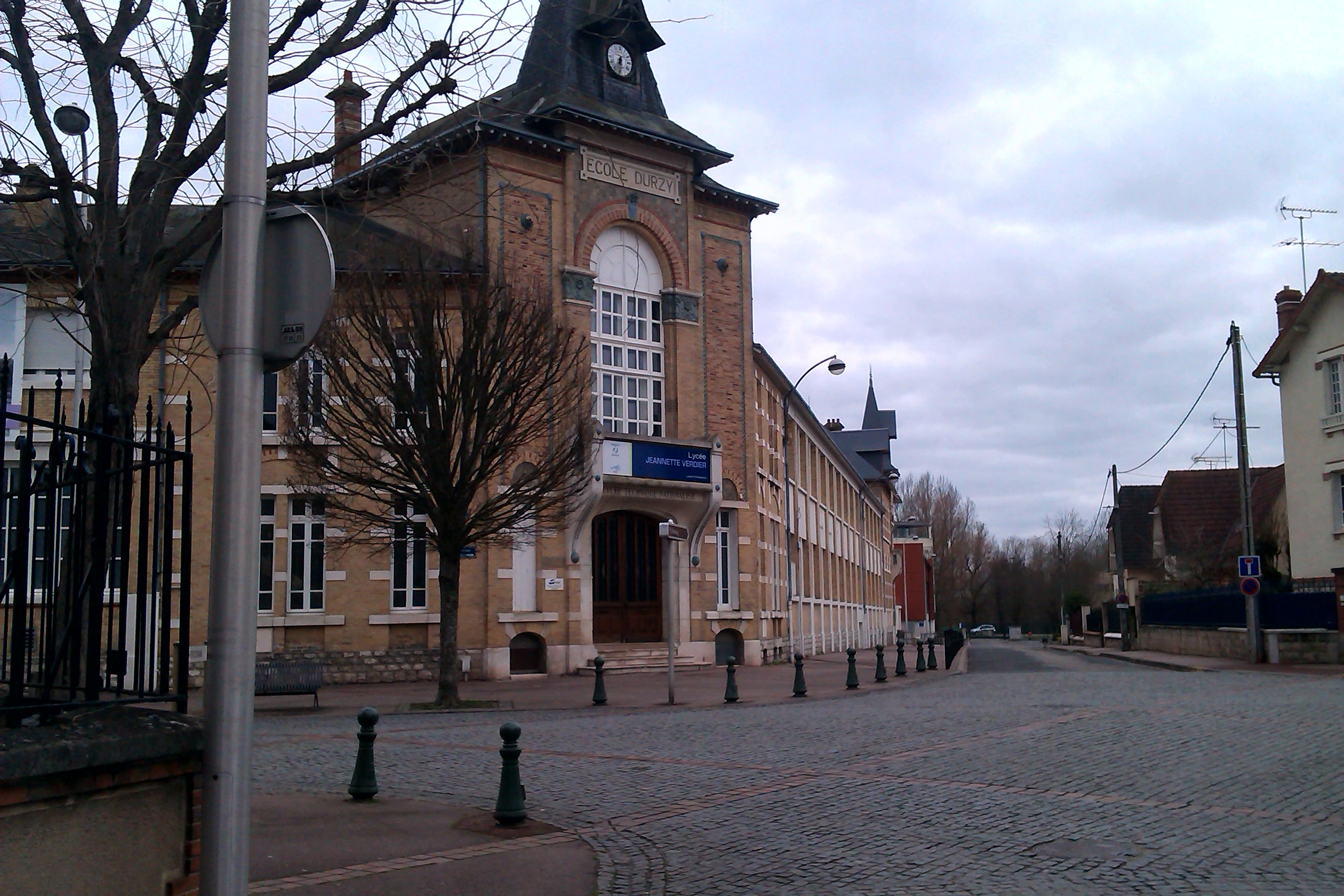 Montargis, Loiret, région Centre, France. Avenue Gaillardin : the old building of the lycée Durzy, a technical/professional school that opened in 1867. It moved into this building in 1910, changed its appellation a couple of times while still retaining its technical vocation, and moved on the town outskirts in 1993.